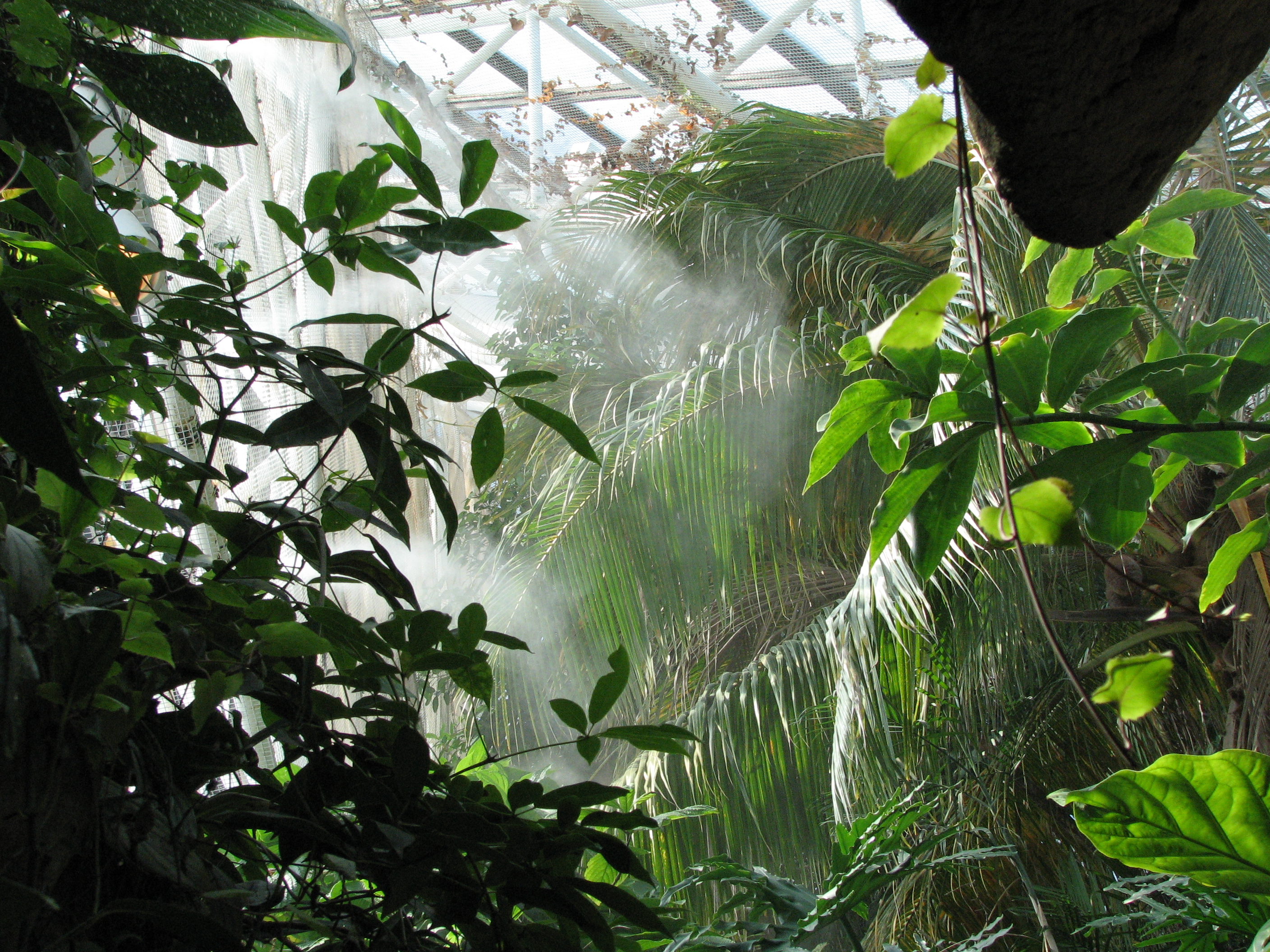 The rooftop rainforest in the Baltimore Aquarium